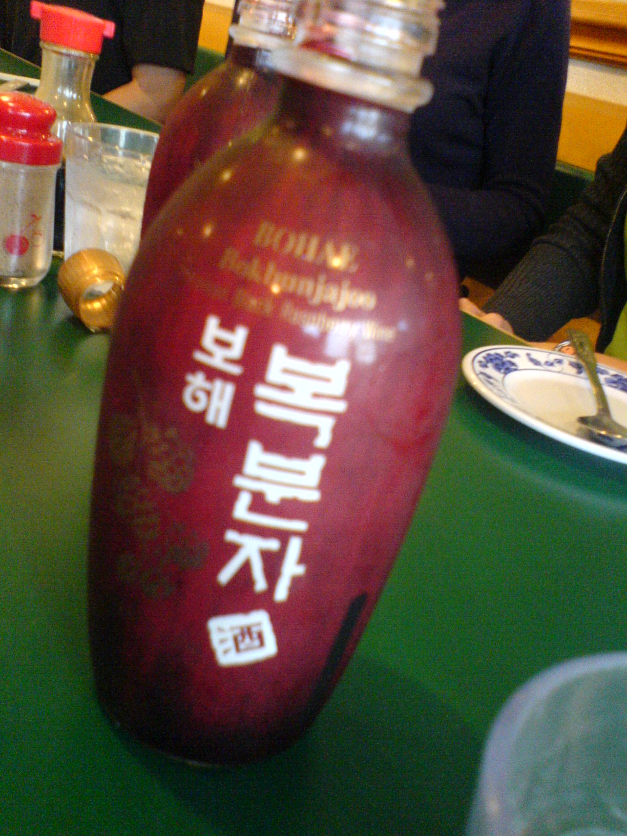 Korean raspberry wine